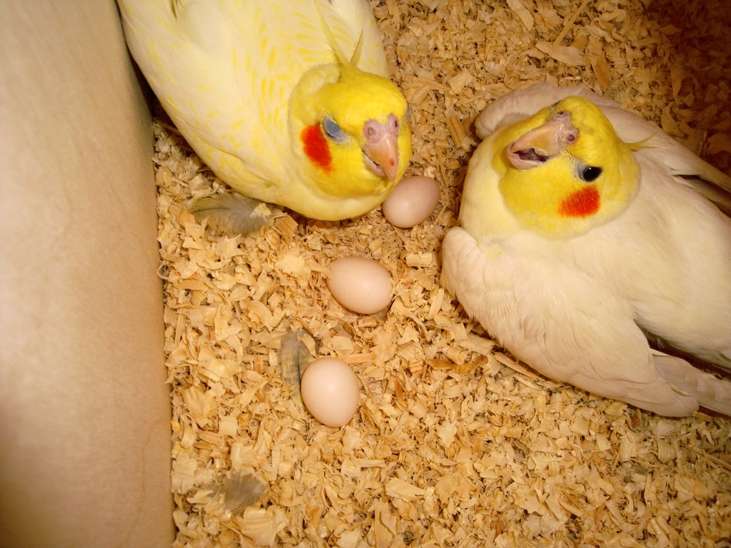 Cockatiels in the nesting box sitting on their eggs. Female is on the left, male on the right.